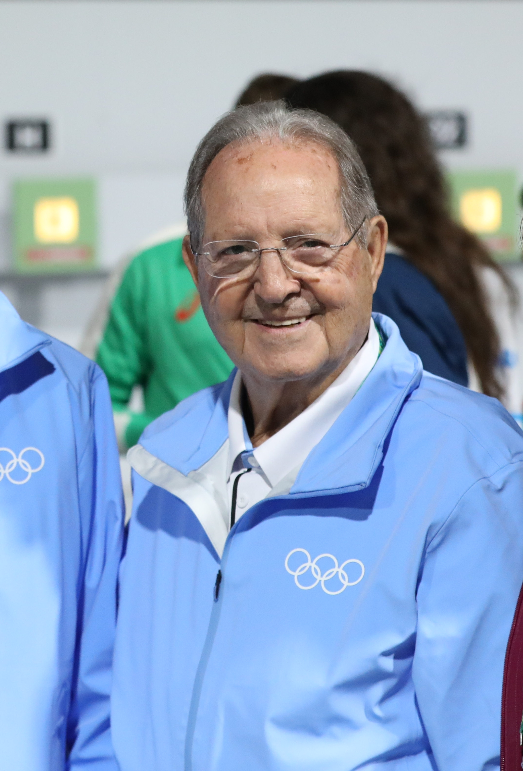 Shooting at the 2018 Summer Youth Olympics in Buenos Aires on 12 October 2018. Mixed 10 metre air pistol.